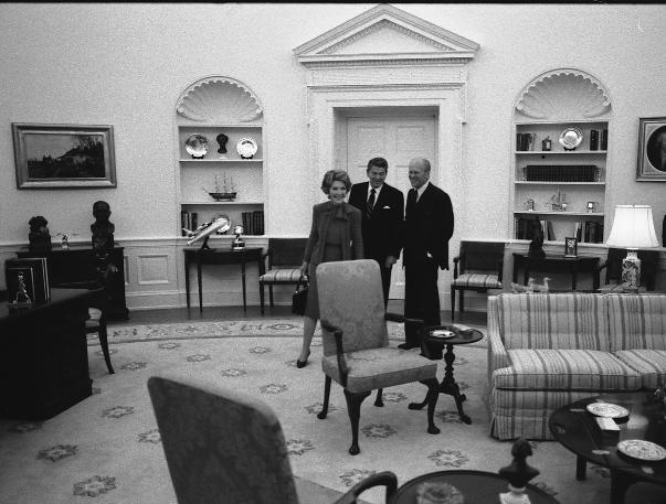 Former President Ford with President and Mrs. Reagan with Ford walk through the Oval Office replica within the Gerald R. Ford Presidential Museum, Sept. 17, 1981